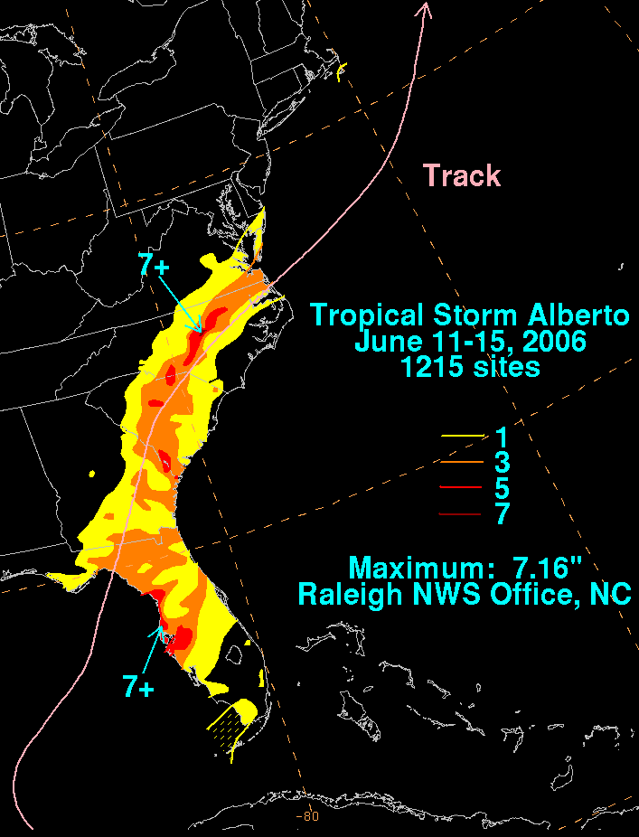 Tropical Storm Alberto (2006) Rainfall in the United States